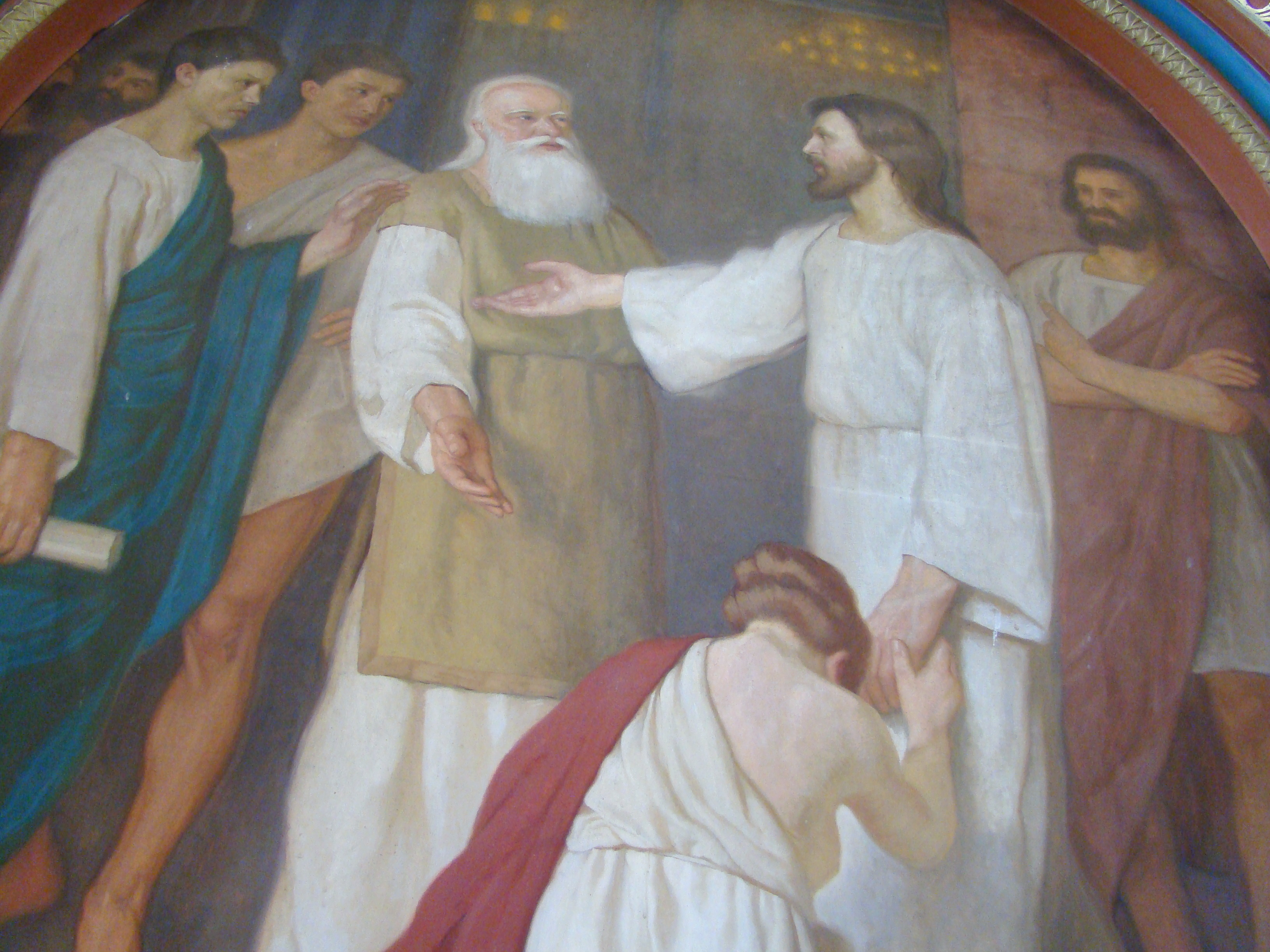 Lutheran church in Criș, Mureș county, Romania